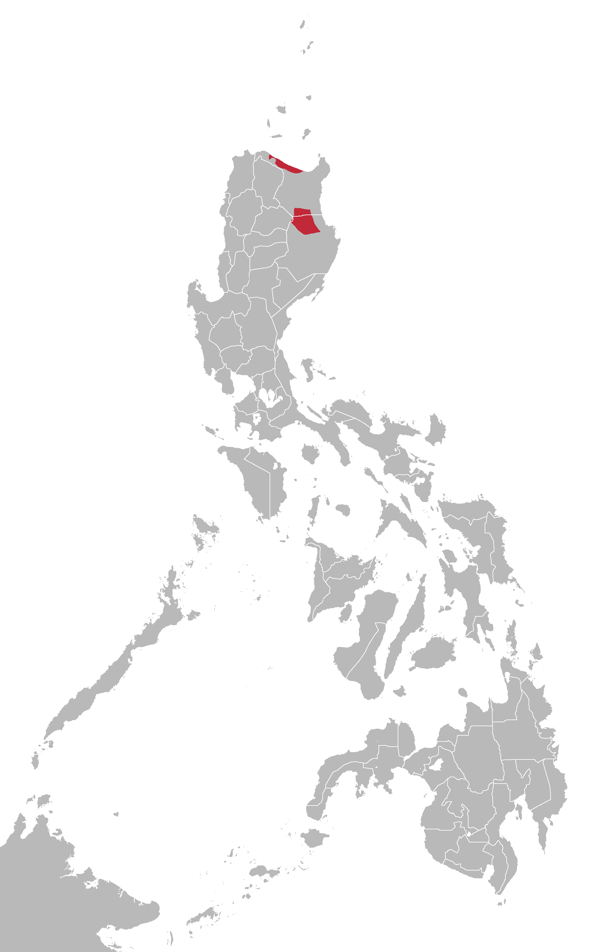 Ibanag language map based on Ethnologue maps